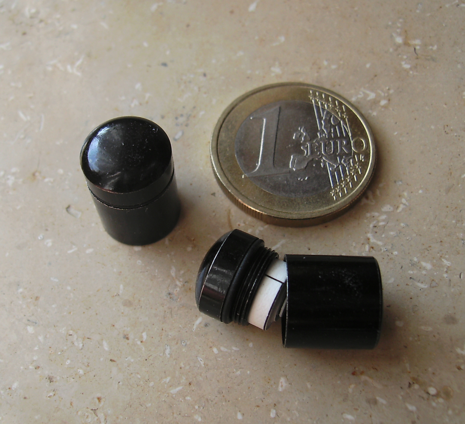 Two "nano size" geocache containers (waterproof) compared in size to a eurocoin.